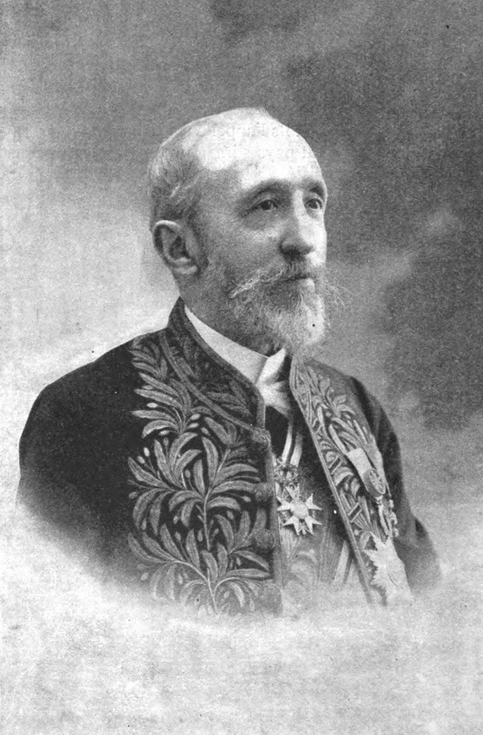 Jules Claretie